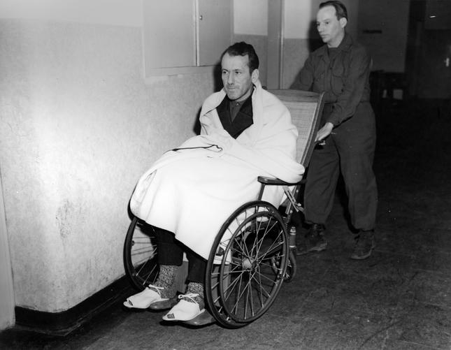 Ernst Kaltenbrunner, head of Gestapo and concentration camps, at Nuremberg Trial War Crimes Trials. Kaltenbrunner wheeled into court during the Nuremberg trials after a brain haemorrhage during interrogation.